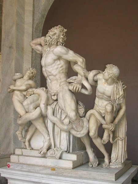 Photo taken by User:Adam Carr, May 2002. This image has been released into the public domain by the copyright holder, its copyright has expired, or it is ineligible for copyright. This applies worldwide. File history Legend: (cur) = this is the current file, (del) = delete this old version, (rev) = revert to this old version. Click on date to download the file or see the image uploaded on that date. (del) (cur) 13:12, 1 February 2004 . . Adam Carr (157528 bytes) (Laocoon) Upload a new version of this file Edit this file using an external application